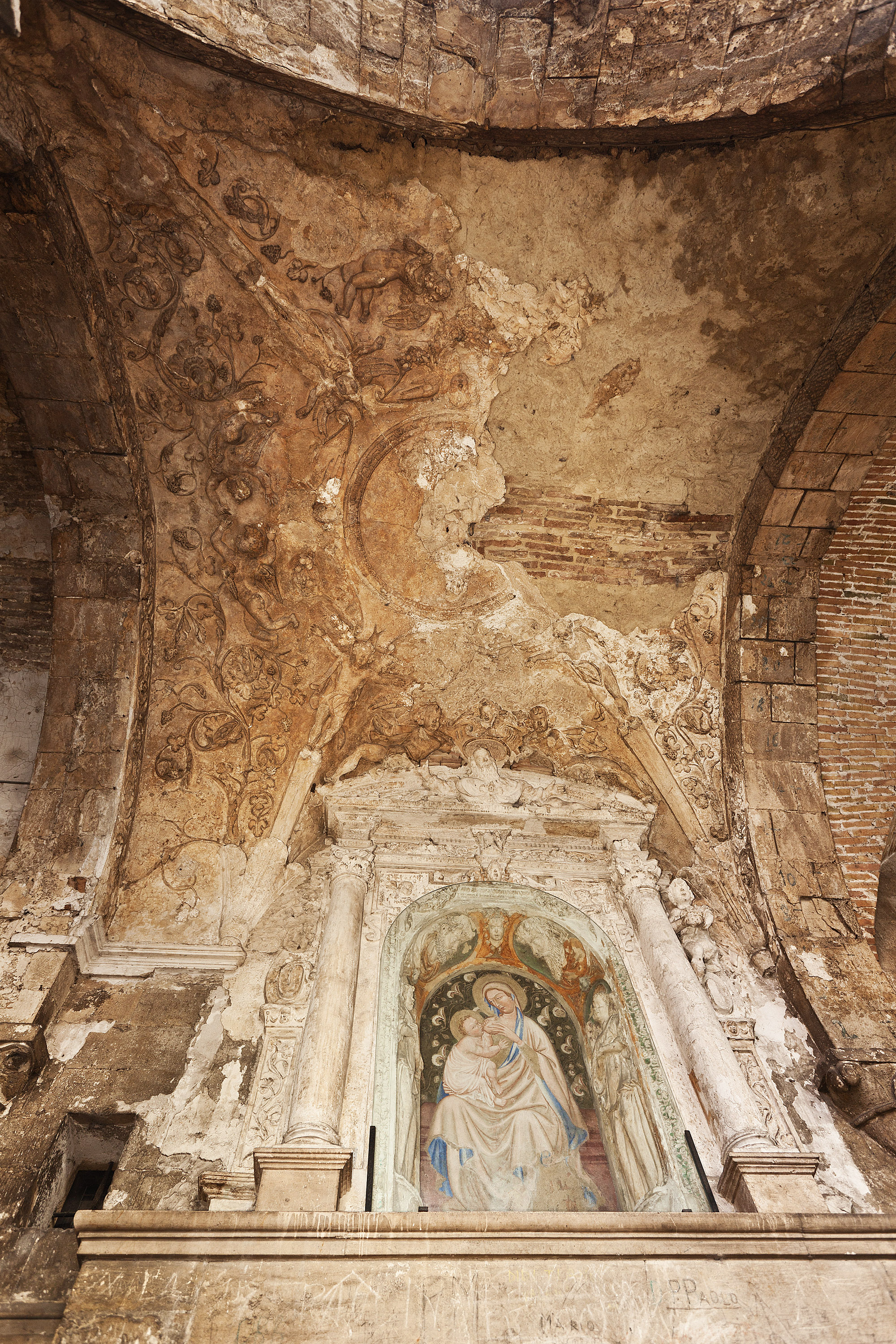 Baroque stucco work and fresco Madonna Del Latte on the north portico of the Santa Maria Maggiore church, Guardiagrele, IT